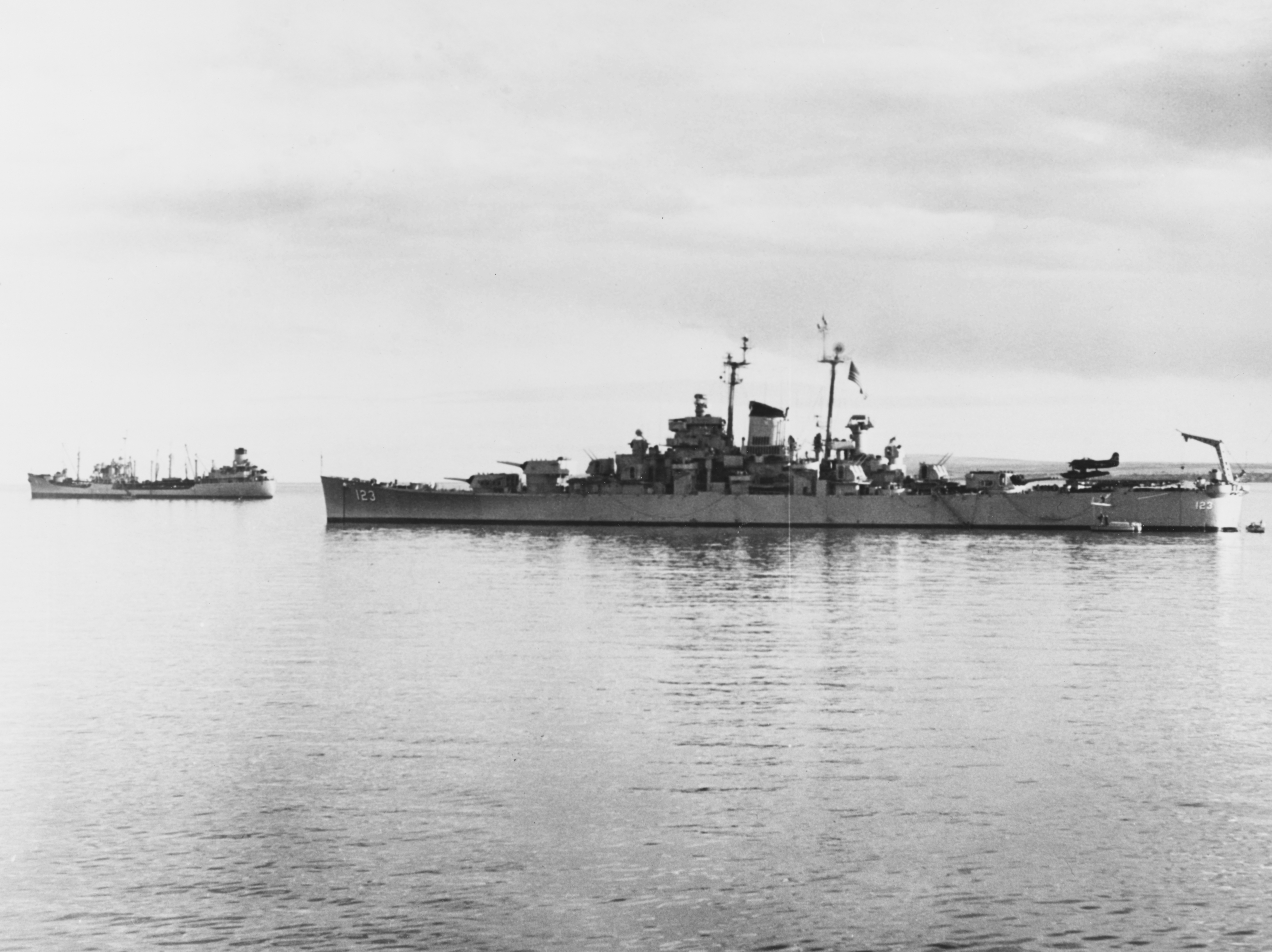 The U.S. Navy heavy cruiser USS Albany (CA-123) anchored in Famagusta Harbour, Cyprus, 6 March 1949. A fleet oiler is visible to the left.